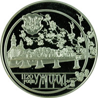 reverse of the coin 1120 the city of Uzhgorod